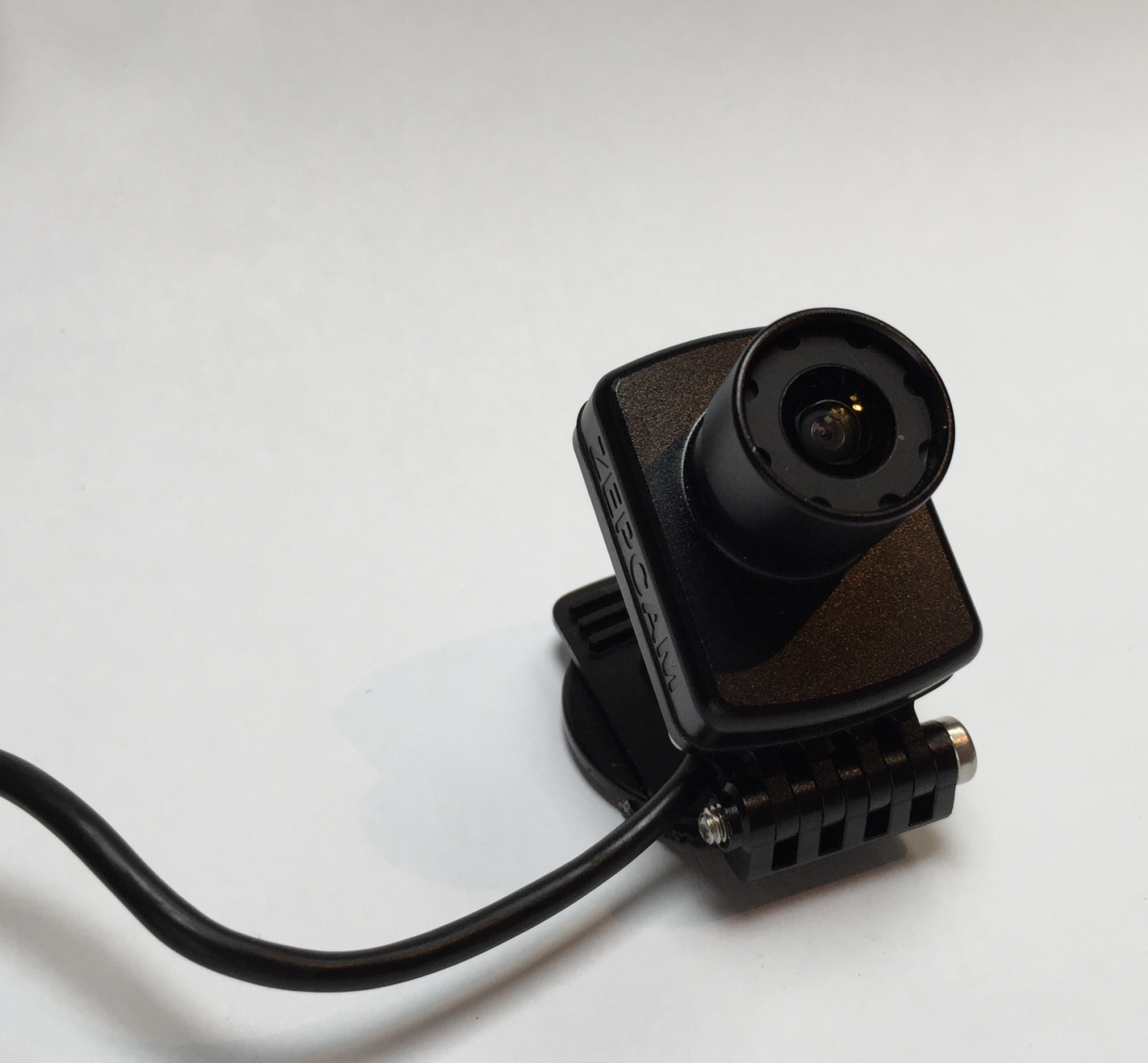 Body camera (Brand Zepcam, type T1)